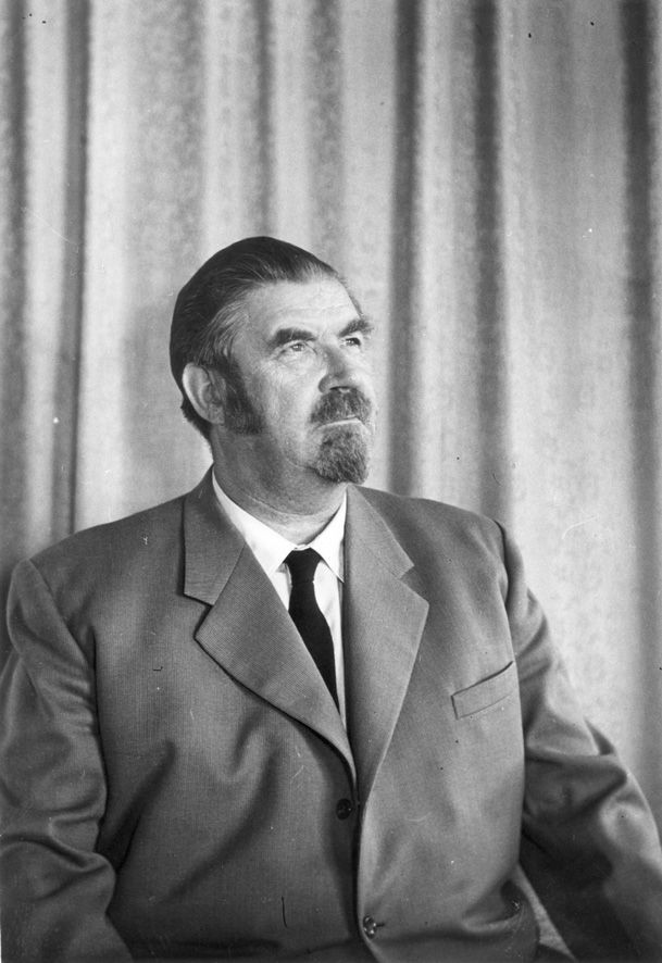 Photograph of mayor of Vantaa (Helsingin maalaiskunta) Lauri Korpinen (1896–1975).